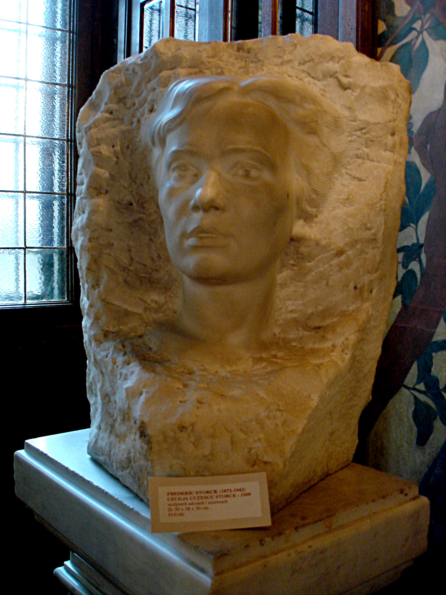 Cecilia Cuțescu-Storck - Portrait (1909) by Frederic Storck, exposed in the Art Museum Frederic Storck and Cecilia Cuțescu-Storck in Bucharest, Romania. Frederic Storck (1872–1942) Alternative names Friedrich Storck, Fritz StorckDescriptionRomanian sculptorDate of birth/death 10 January 1872 26 December 1942 Location of birth/death Bucharest BucharestAuthority control : Q368977 VIAF: 96120065 ULAN: 500064165 GND: 1175921076 RKD: 434323 creator QS:P170,Q368977